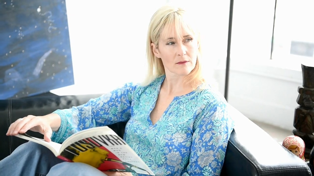 Joanna Stingray. Snapshot 00:13 from: Joanna Stingray video featuring Joanna and her daughter Madison Stingray, Directed by Mark Humphrey and Joanna Stingray, Produced by Red Wave and Xperience Factory